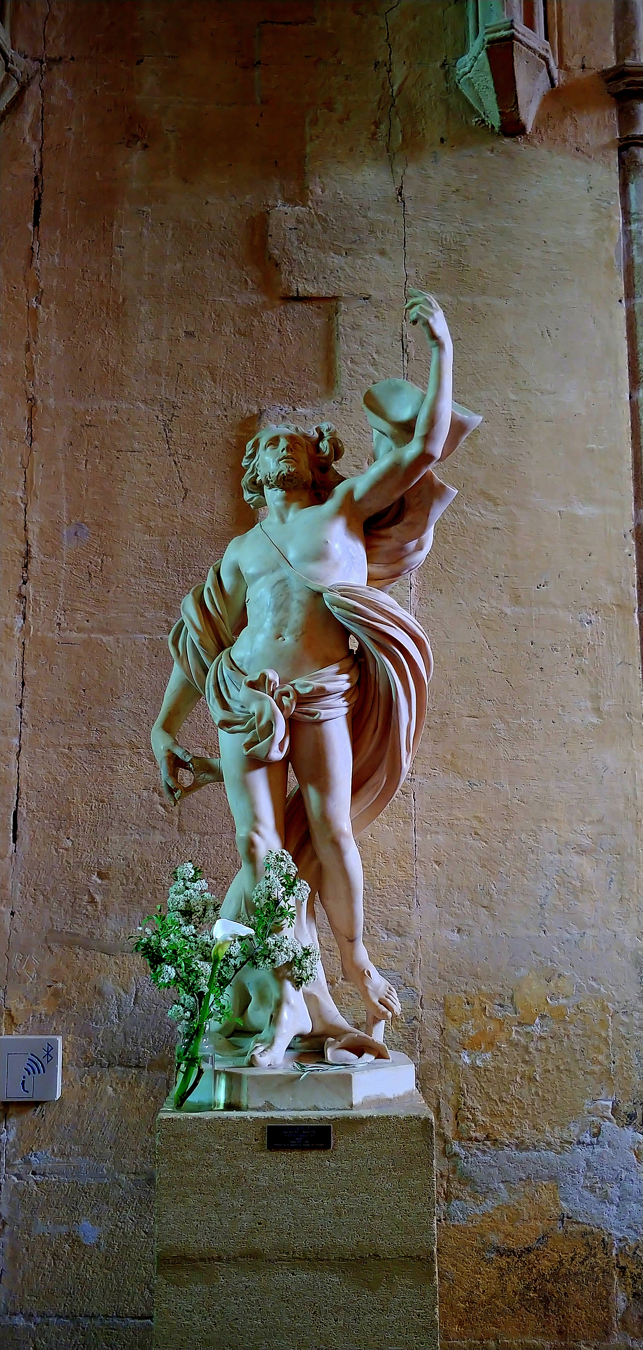 The resurrected Christ, Honoré Pellé, around 1680, at the Saint-Sauveur cathedral in Aix-en-Provence in Bouches-du-Rhône